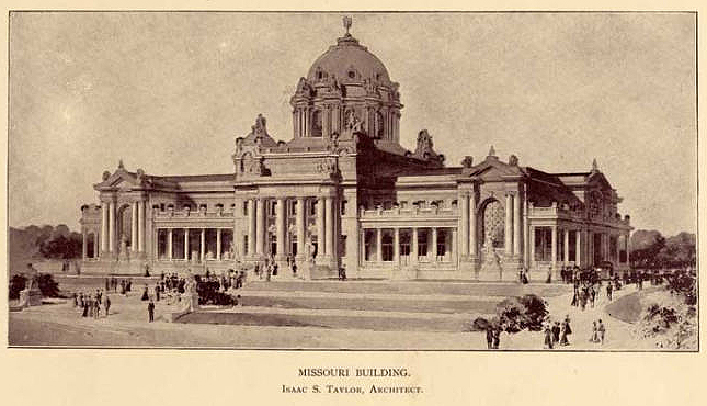 Missouri State Building, St. Louis World's Fair, 1904; from a pre-1923 issue of The Inland Architect